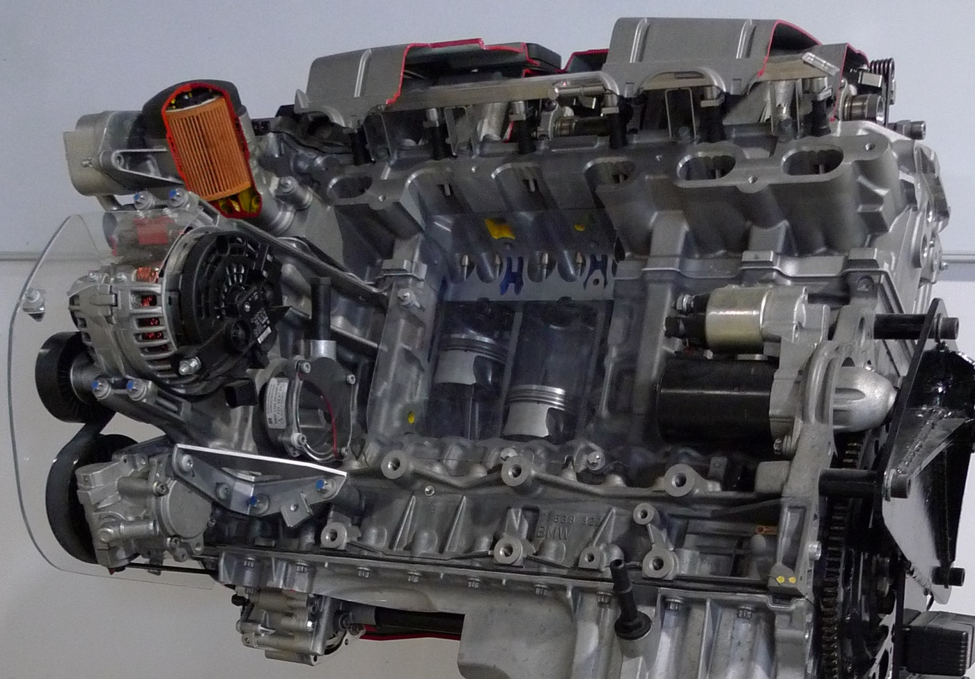 Sectional model of a BMW N52 engine, Institute of Applied Materials – Materials Science (IAM–WK), Karlsruhe Institute of Technology (KIT)